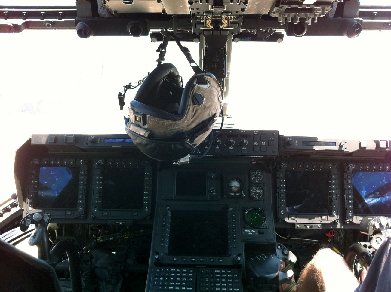 The cockpit of a MV-22 Osprey tiltrotor on display exposed at Andrews Air Show 2011 (Joint Open Service House).